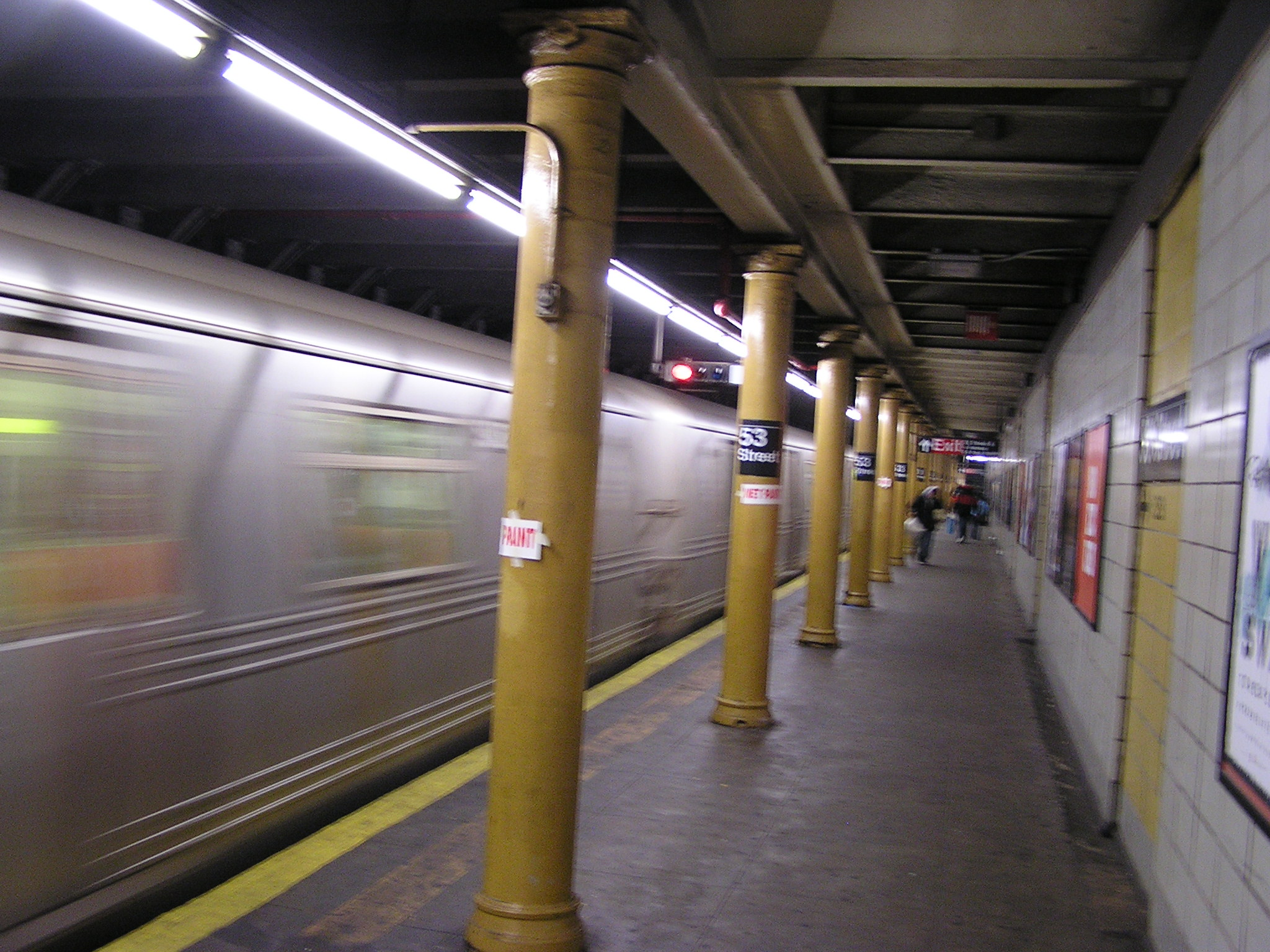 w:53rd Street (BMT Fourth Avenue Line) train